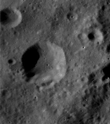 LROC WAC image No. M118844365ME. Calibrated by LROC_WAC_Previewer.